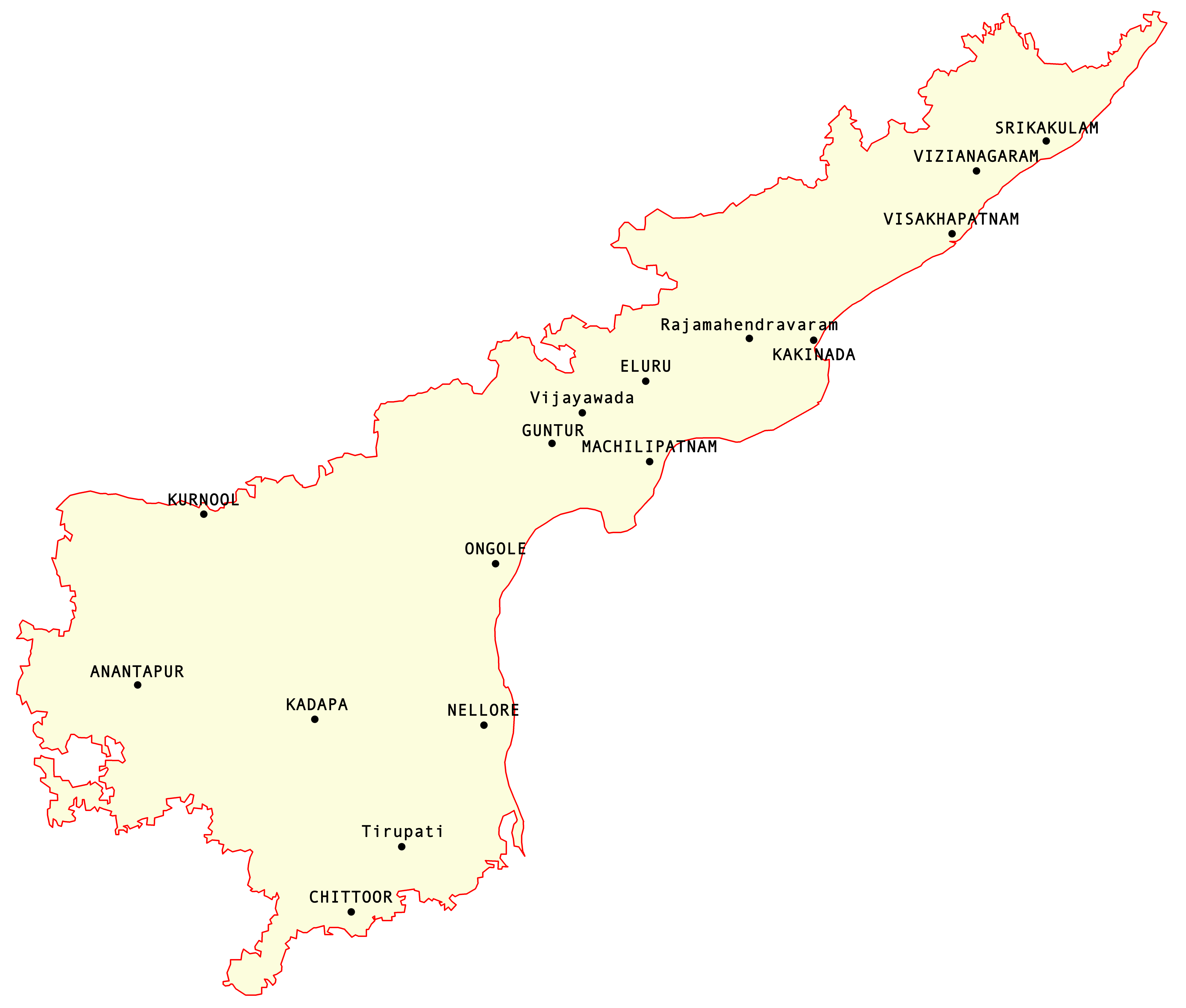 Map showing Municipals corporations of Andhra Pradesh